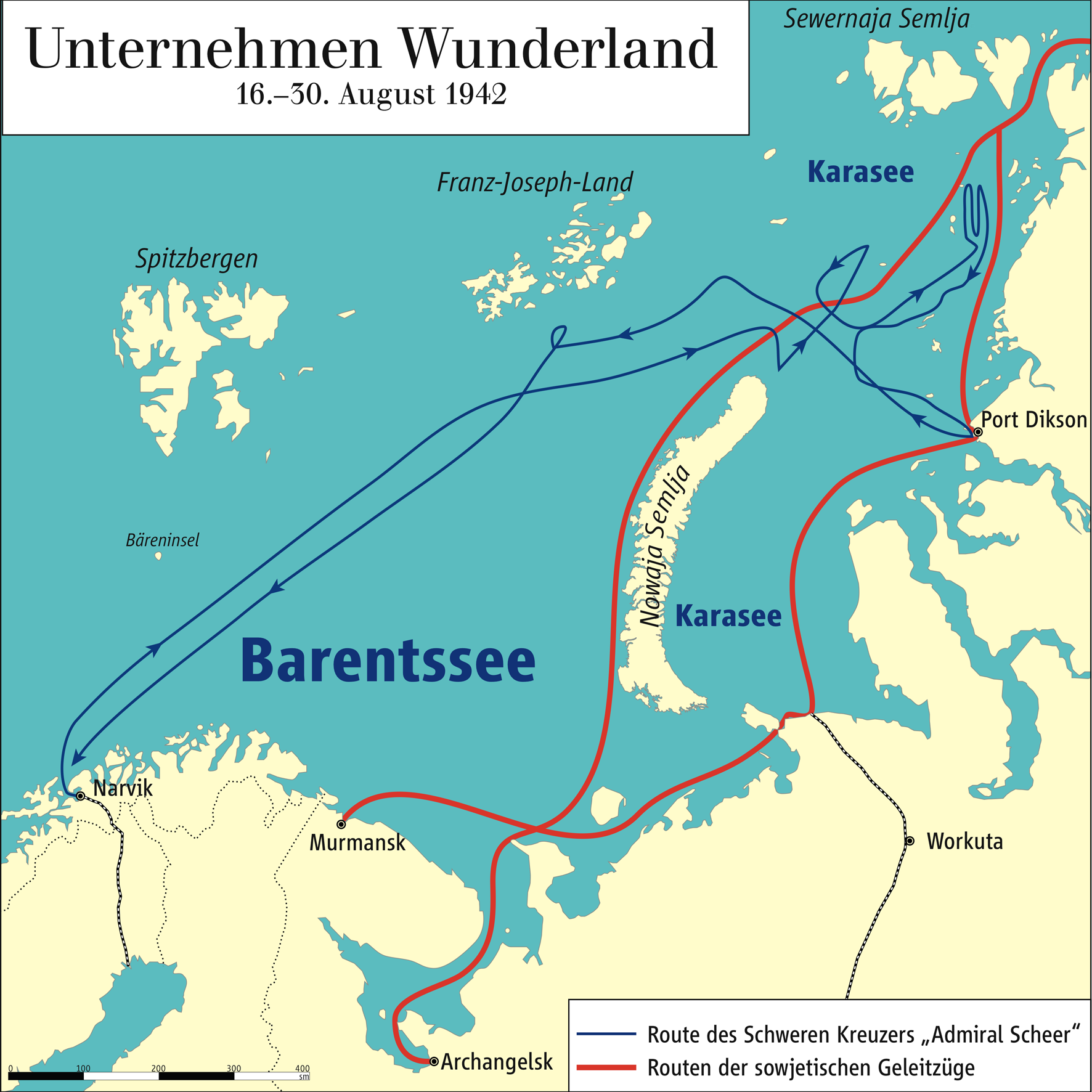 Map of "Operation Wonderland" 1942